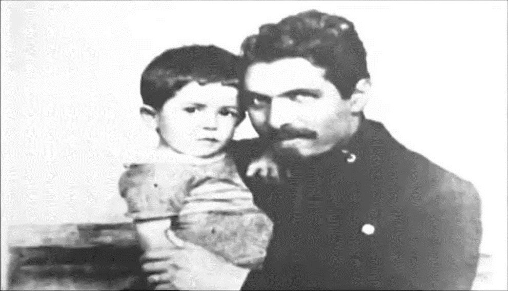 Stepan Shaumyan with his son.